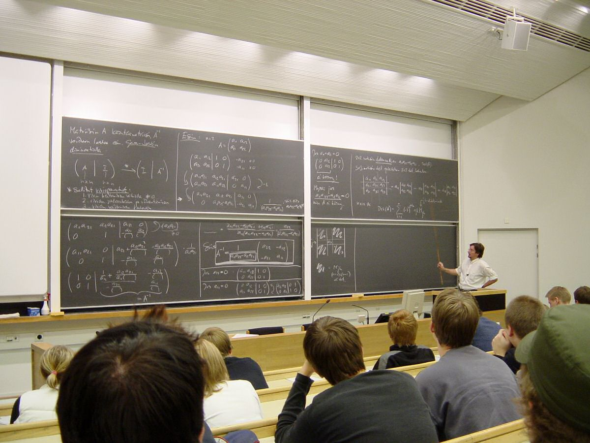 A mathematics lecture, apparently about linear algebra, at Helsinki University of Technology (HUT) — Teknillinen korkeakoulu (TKK) in Espoo Finland.